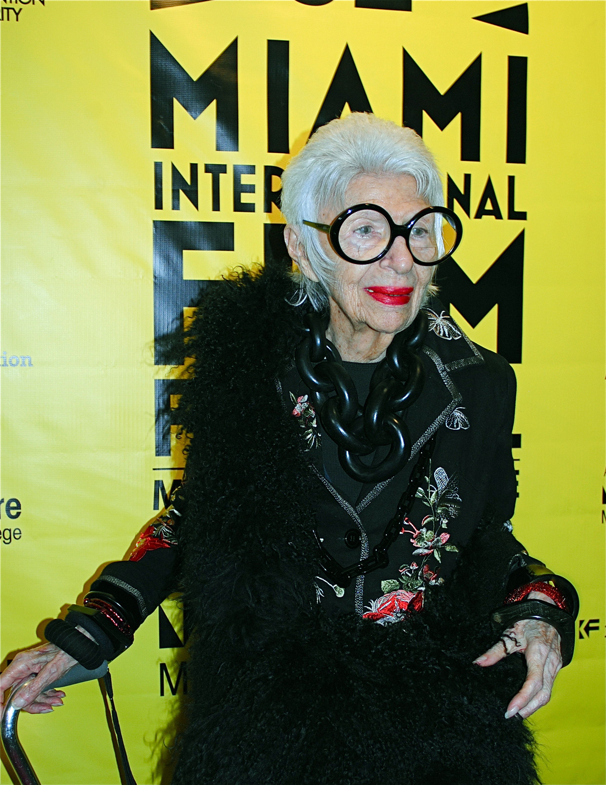 Iris Apfel at O Cinema Miami Beach to present IRIS, by Albert Maysles